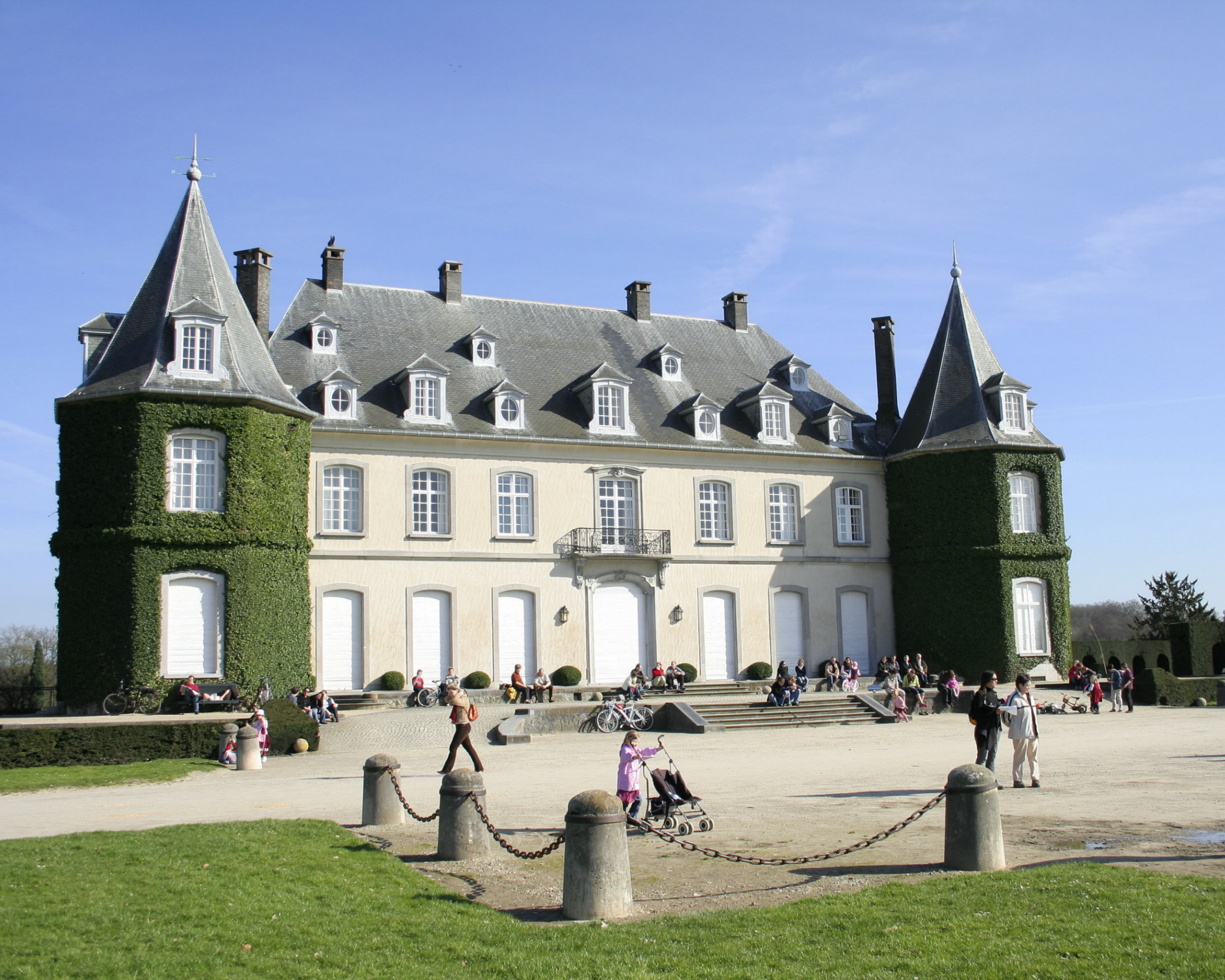 La Hulpe (Belgium), the Solvay castle (1842).